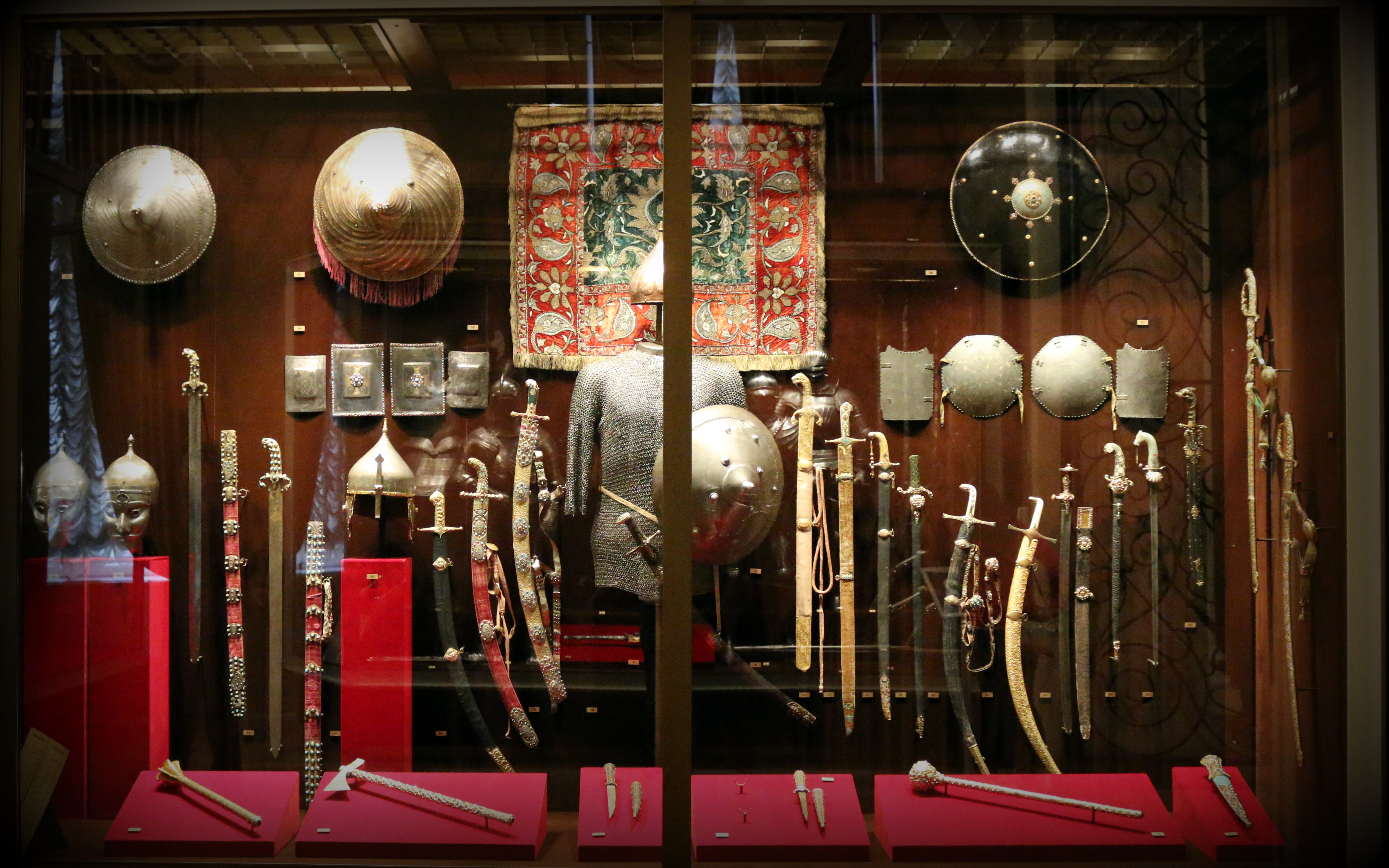 PERSIAN ARMS AND ARMOUR OF THE 16TH - 18TH CENTURIES - Kremlin Armoury Chamber / Museum, Moscow, 2020 - Photo: Persian Dutch Network